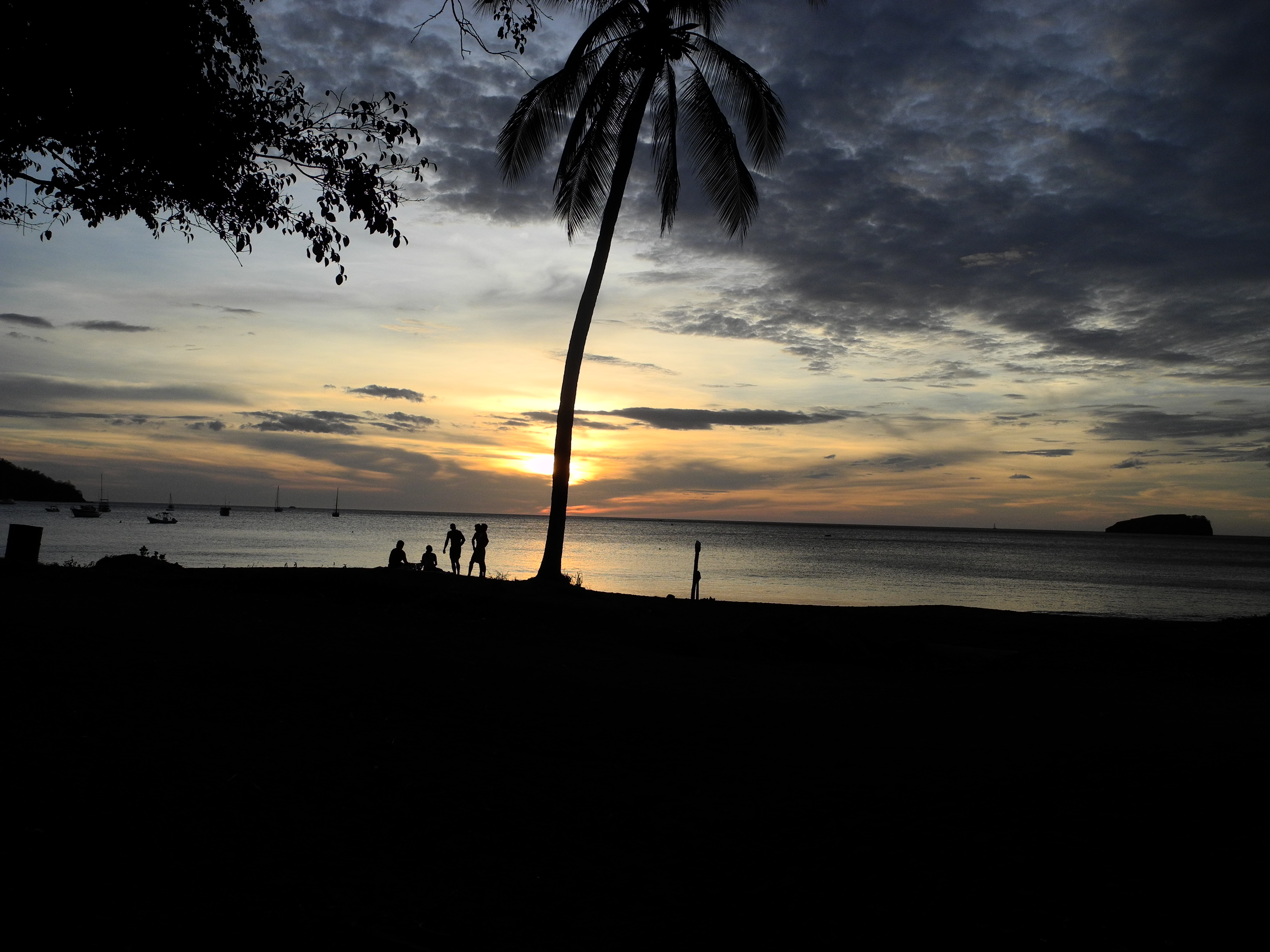 This is how every single sunset looked at Playa del Coco when I was there in 2010.